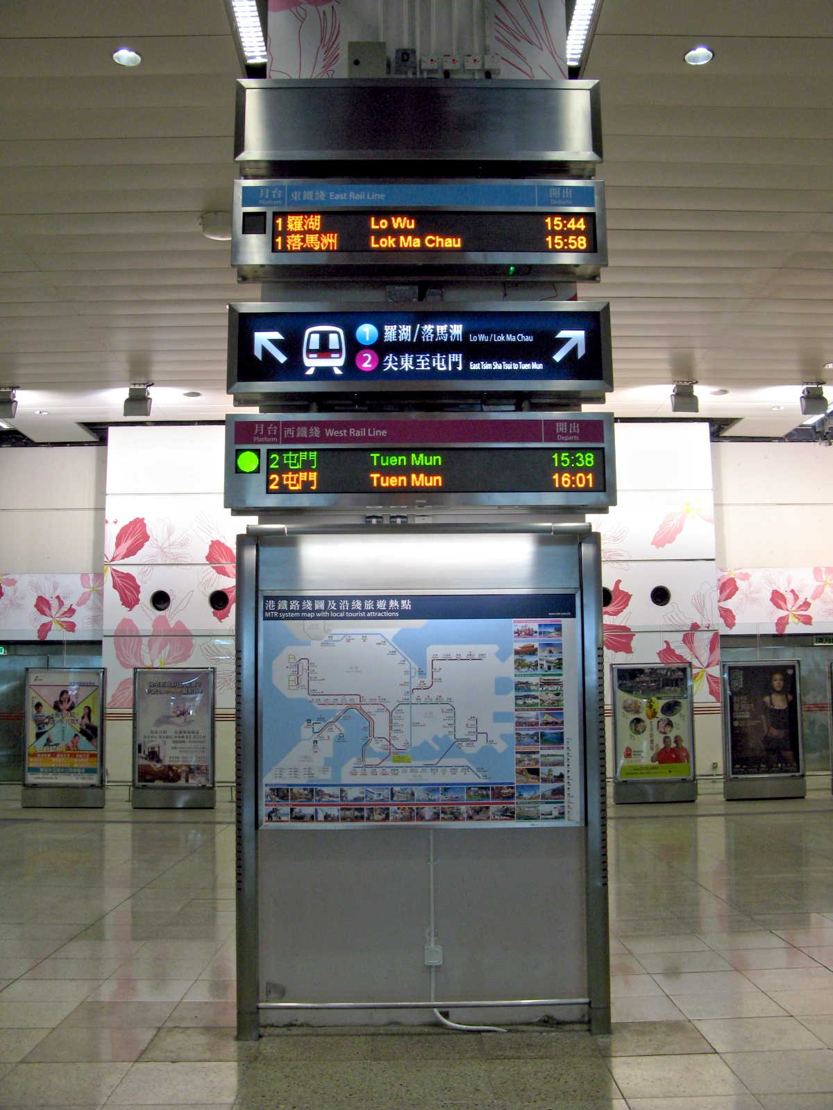 MTR Hung Hom Station Concourse Sign